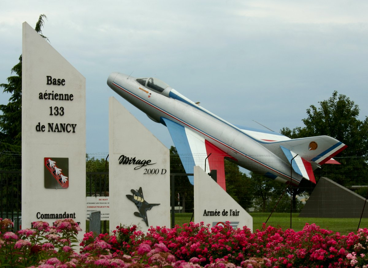 Main entrance of the BA133 Nancy-Ochey with a preserved Mystère IVA as a gate guard wearing the PAF colors